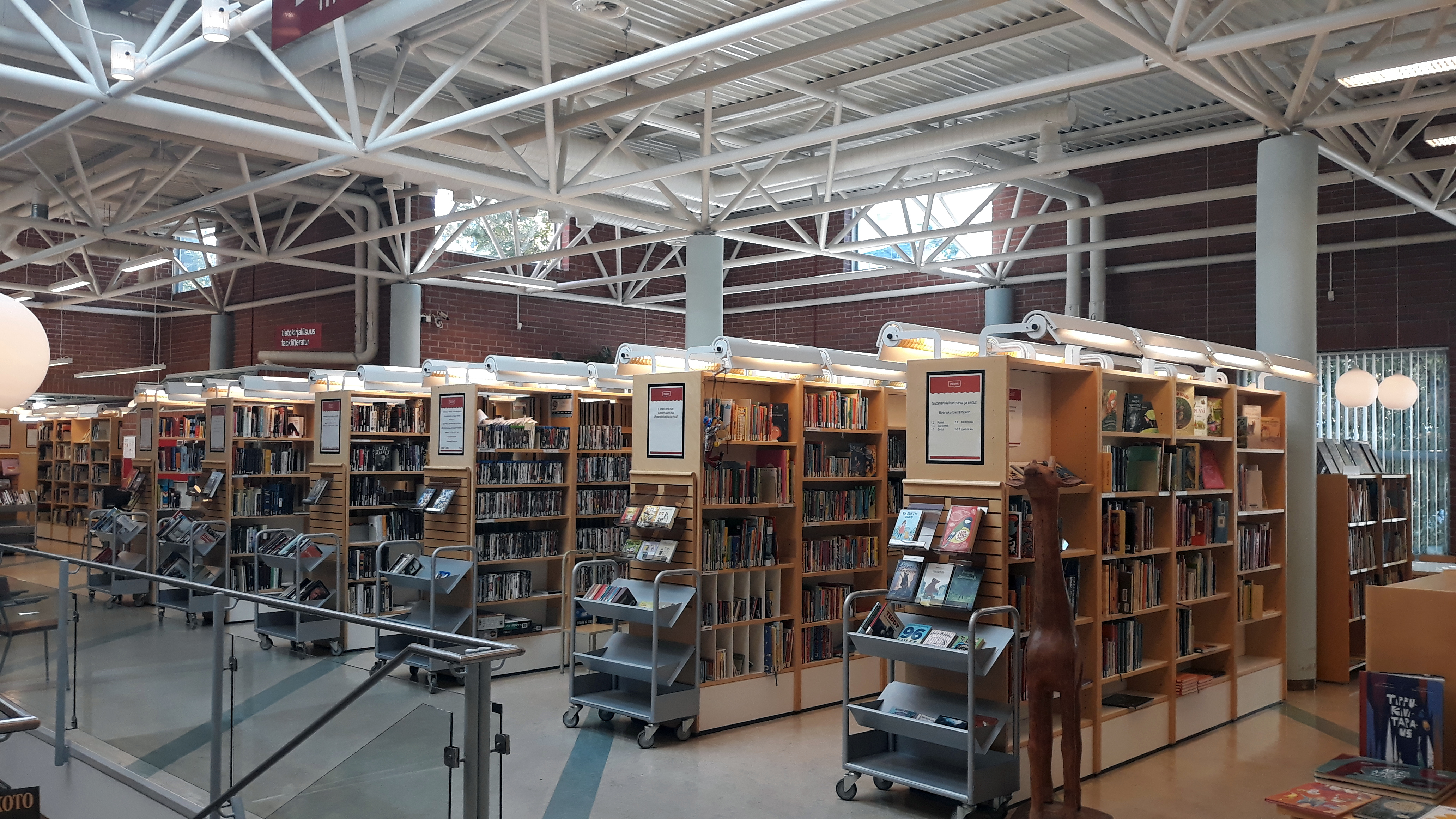 Itäkeskus library in Itäkeskus, Helsinki.